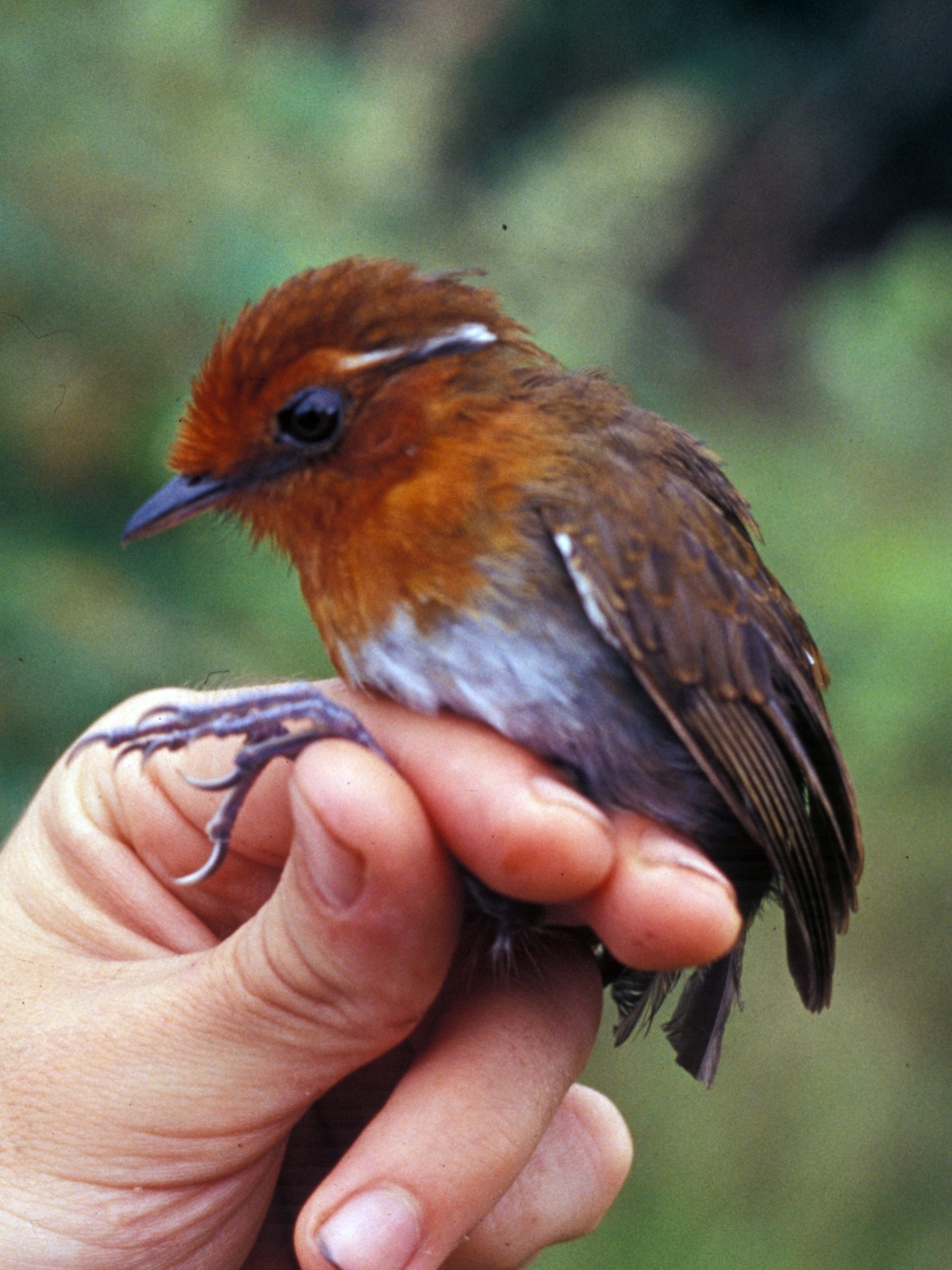 Chestnut-crowned Gnateater (Conopophaga castaneiceps). Female from Cordillera del Cóndor, Ecuador.